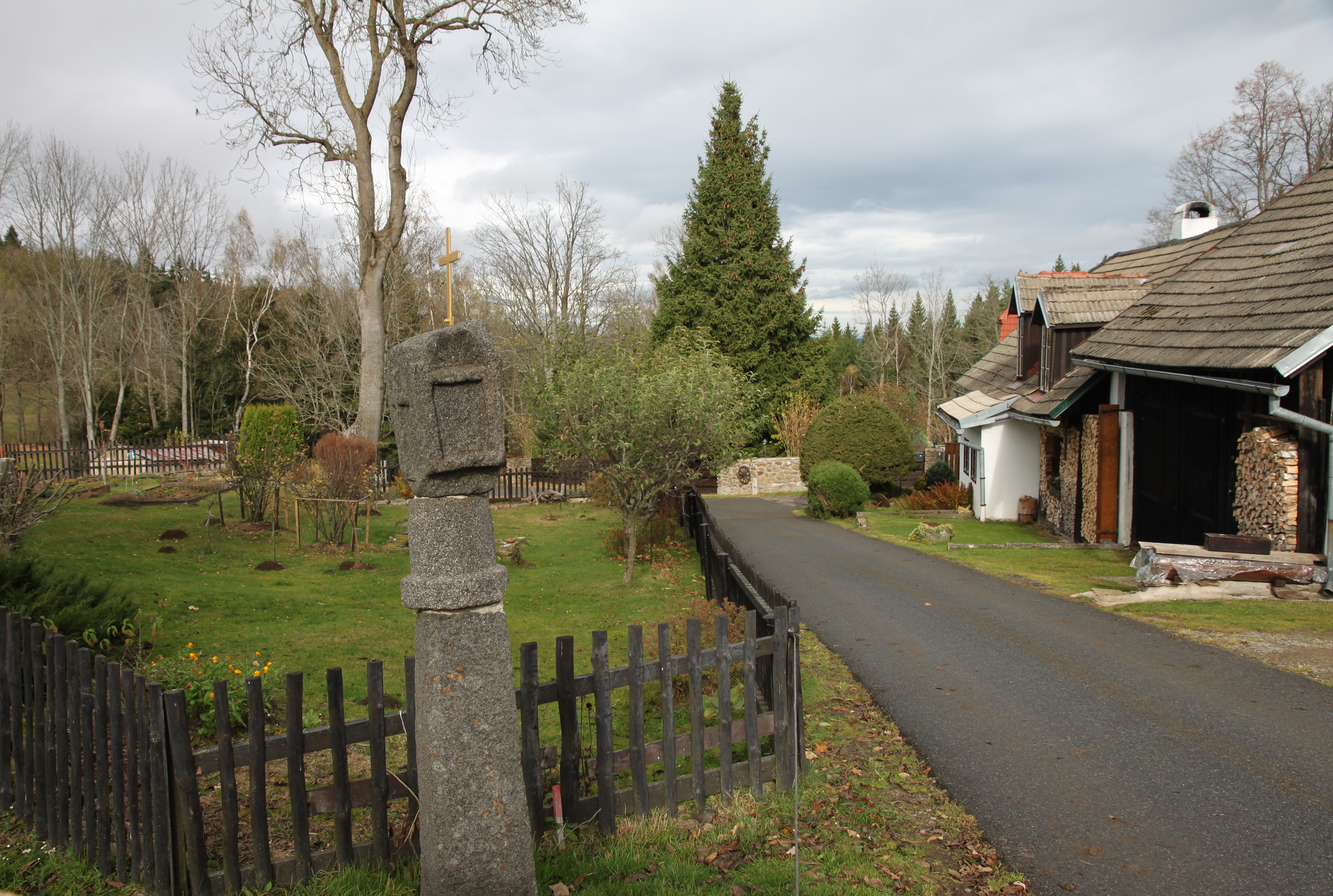 Column shrine in Volovice, a part of the Prachatice Municipality, South Bohemian Region, Czechia.